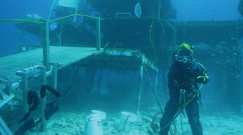 American aerospace engineer and NEEMO 14 aquanaut Steve Chappell performs EVA from Aquarius underwater habitat.